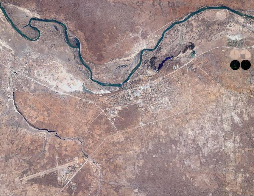 satellite picture of the city of Rundu, Namibia. the city center is visible in the upper center of the image